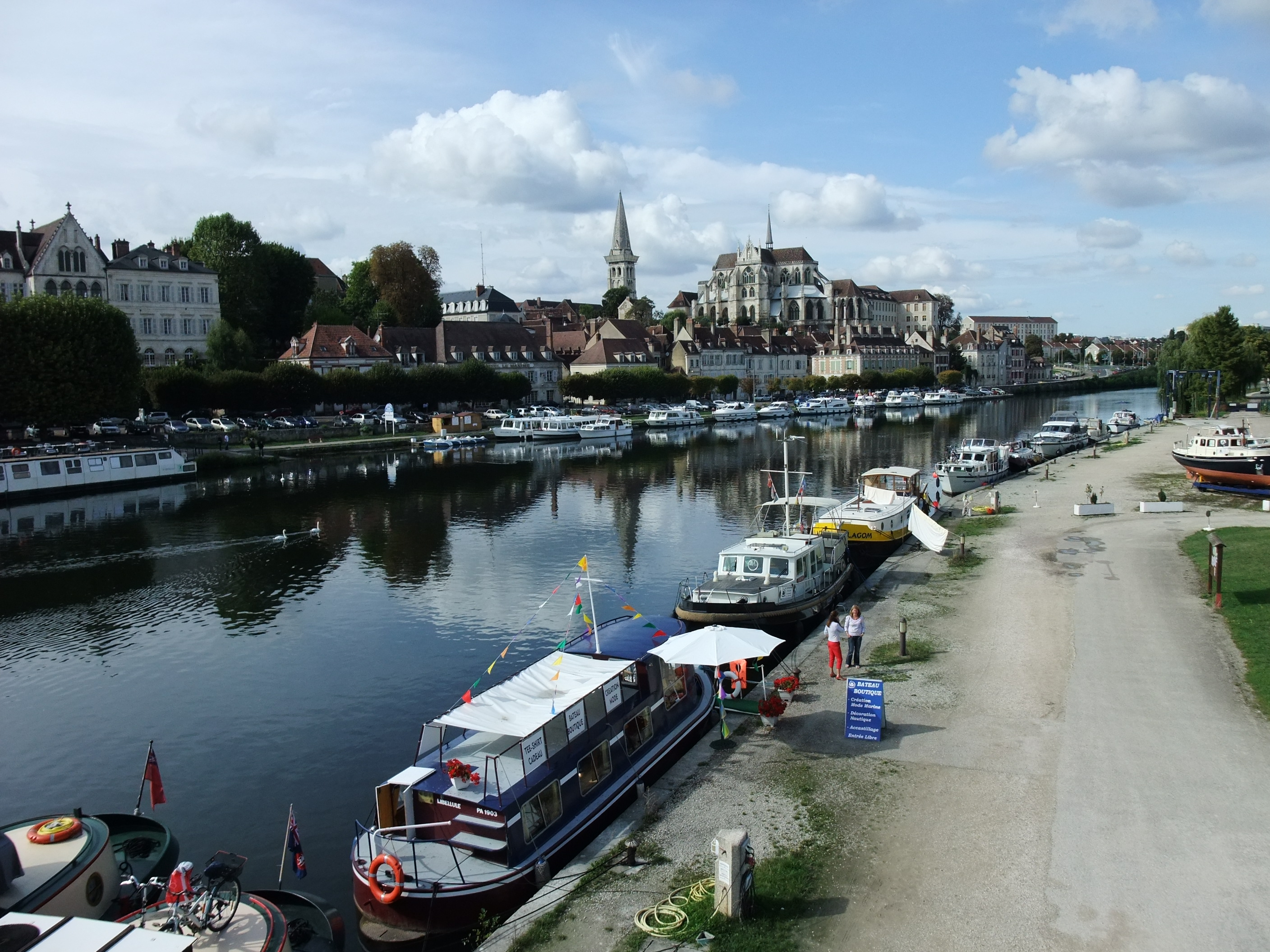 Auxerre and River Yonne in Burgundy, France - View to Abbey St. Germain